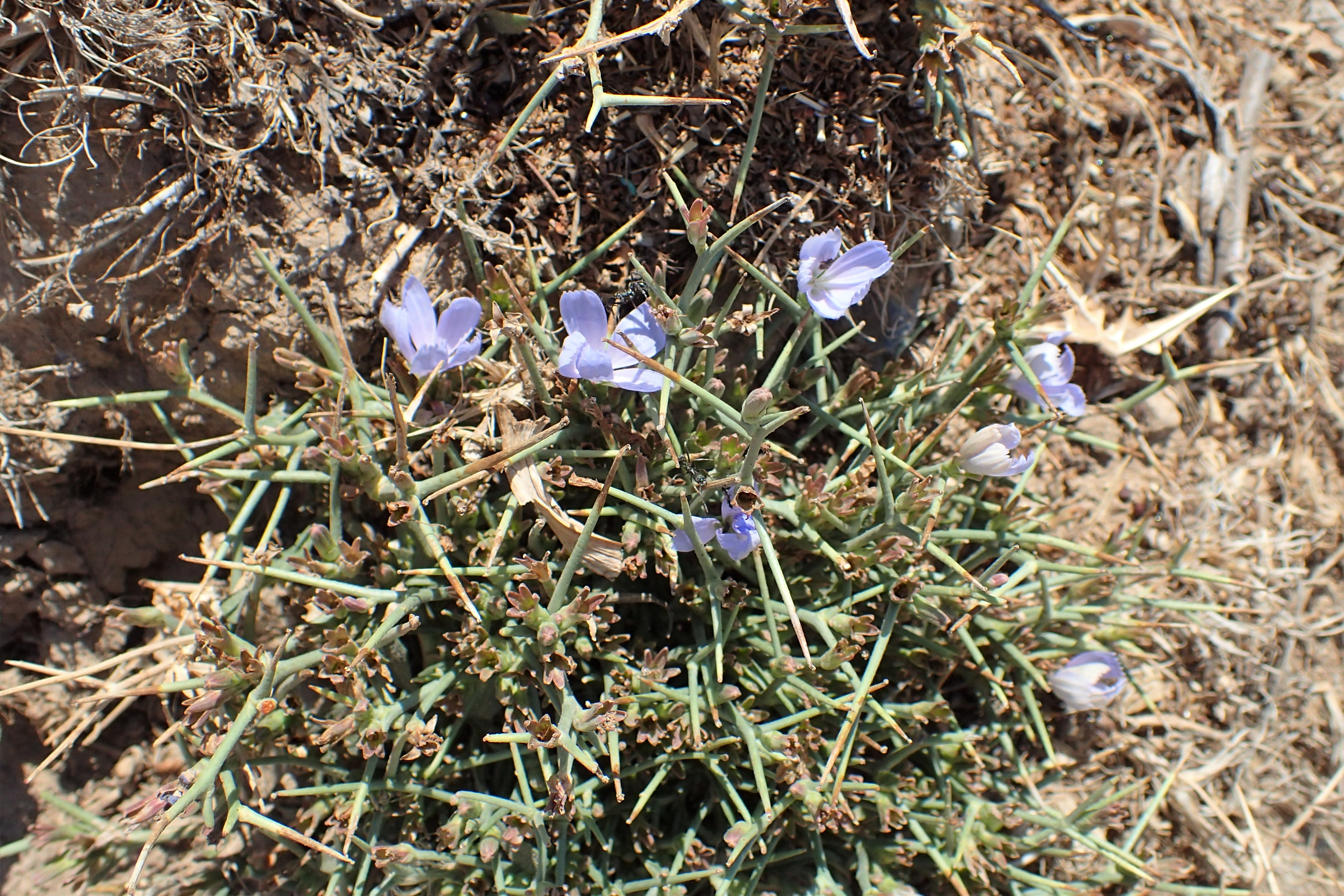 Cichorium spinosum in Impros Gorge, Crete, Greece.